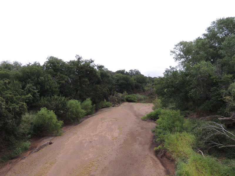 Image illustrates Cache Creek's sandbar or shoal geology including the periodic variations in stream flow and water level. Photo of Cache Creek (Oklahoma) taken with Nikon camera.